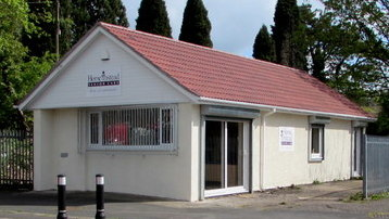 Home Instead Senior Care office in Rogerstone